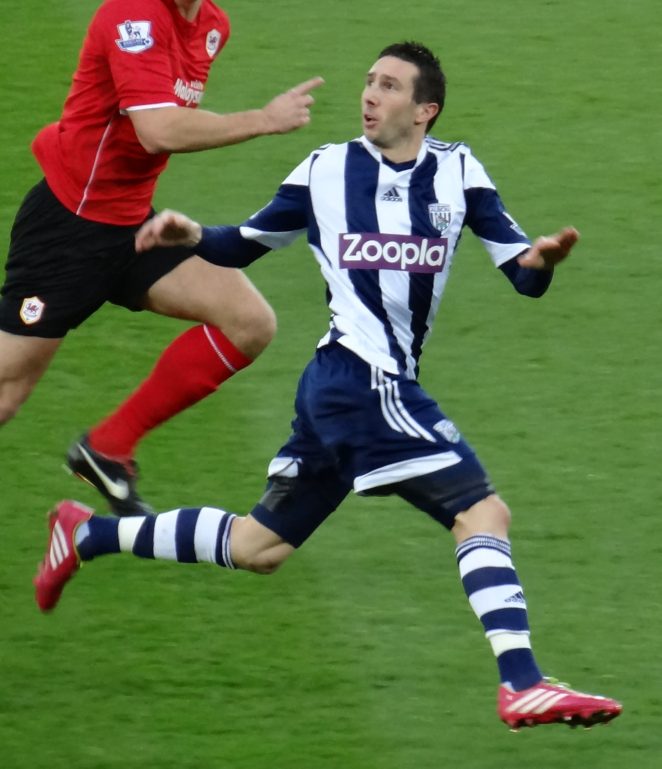 French football player of West Bromwich Albion, Morgan Amalfitano while playing against Cardiff City in English Premier League.